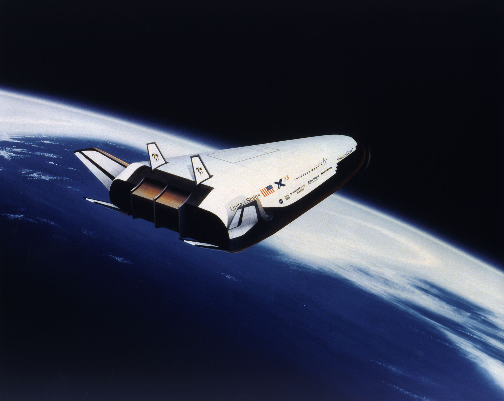 This artist's rendering depicts the NASA/Lockheed Martin X-33 technology demonstrator for a Single-Stage-To-Orbit (SSTO) Reusable Launch Vehicle (RLV) at high altitude. The RLV technology program was a cooperative agreement between NASA and industry. The goal of the RLV technology program was to enable significant reductions in the cost of access to space, and to promote the creation and delivery of new space services and other activities that would improve U.S. economic competitiveness.